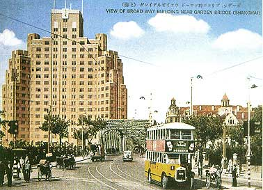 Broadway Mansions in the 1930s